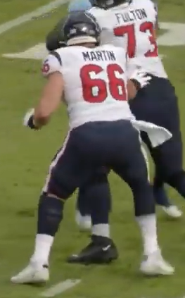 Nick Martin 2019. Image from video Kenny Vaccaro's Insane Diving INT | Slow-Mo Monday, ~ 00:02